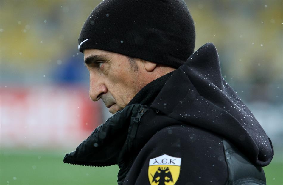 Manolo Jiménez coaching AEK against Dynamo Kyiv on 2018-02-22.